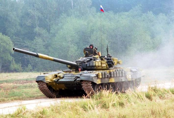 Т-72S tank in Russian service.